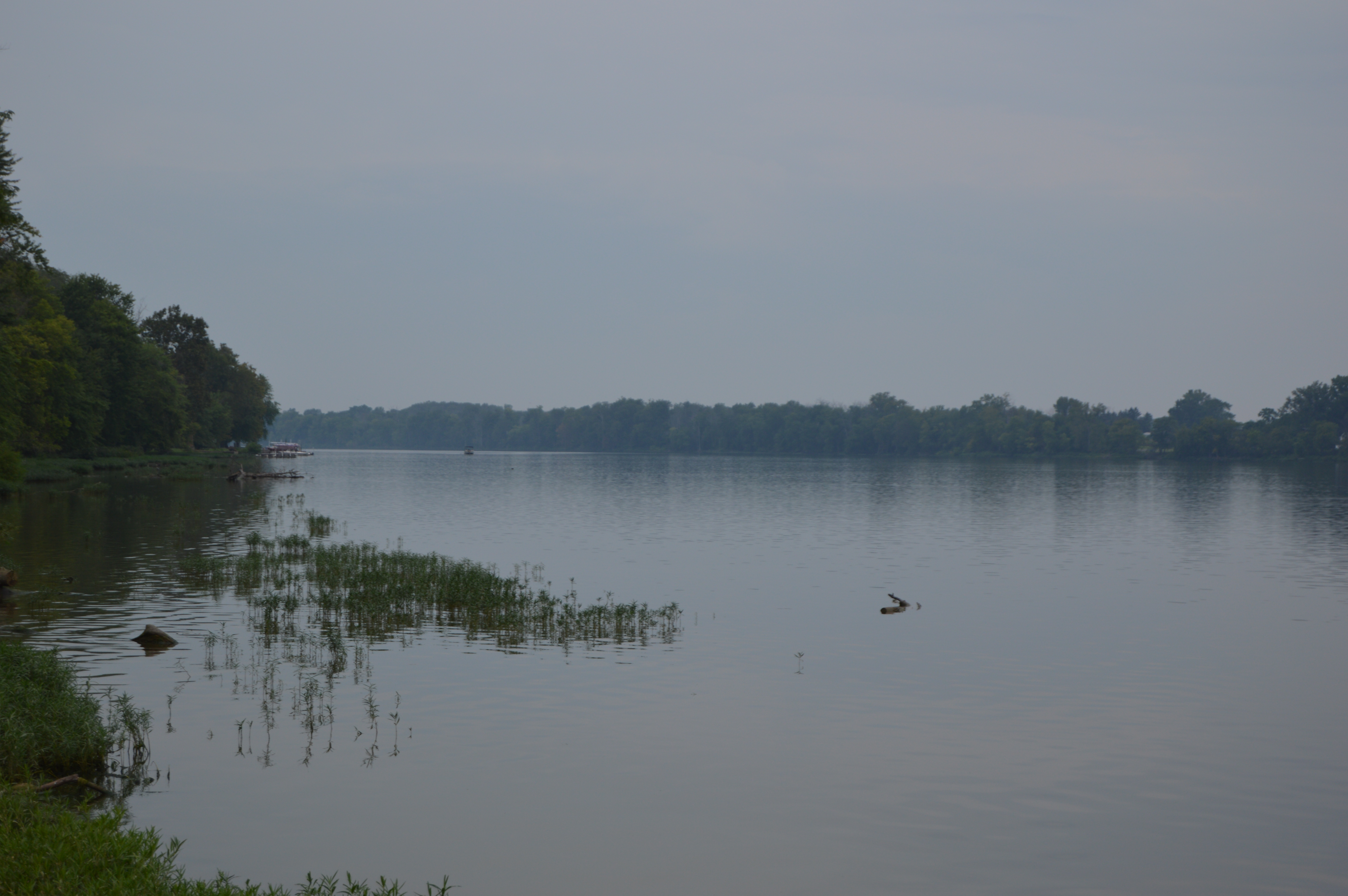 Looking upstream from the small harbor at Mary Jane Thurston State Park in northeastern Damascus Township, Henry County, Ohio, United States. Land across the Maumee River is included in Henry County's Washington Township.